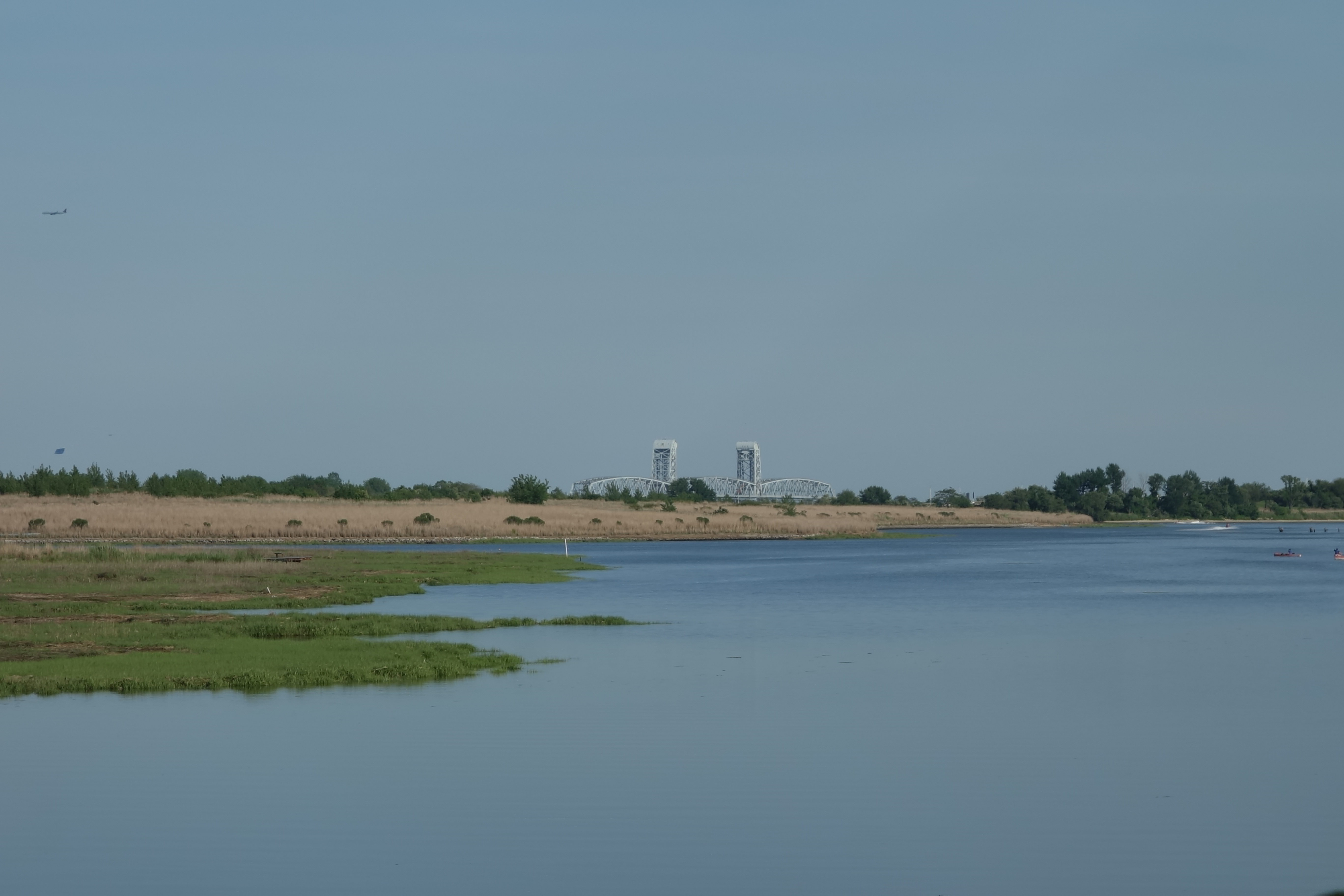 Looking at the northern end of Gerritsen Greek or Gerritsen Inlet in the southern section of Marine Park, at Avenue U east of Burnett Street in Marine Park / Gerritsen Beach, Brooklyn. In the immediate background is White Island (Mau Mau Island), a bird island within the preserve. In the far background is the Marine Parkway Bridge leading to the Rockaways. Hidden Waters of New York City NYC Parks